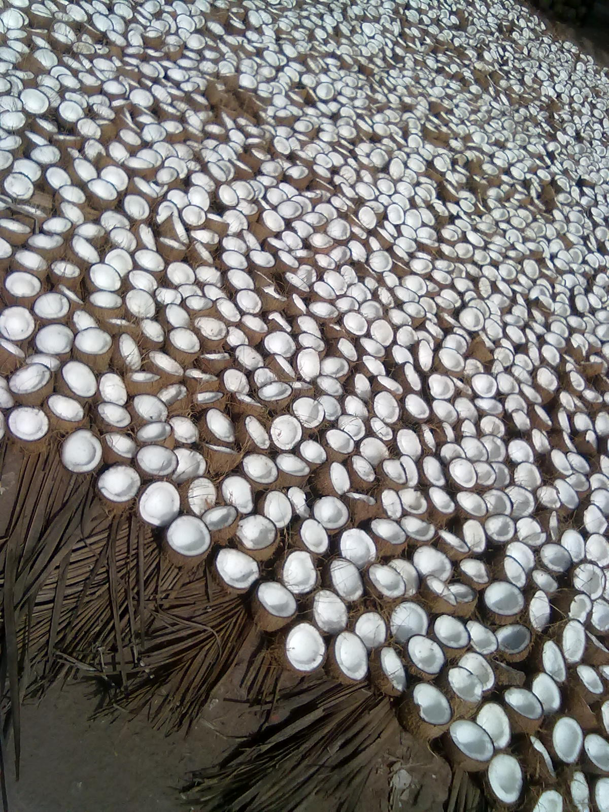 in amalapuram.....